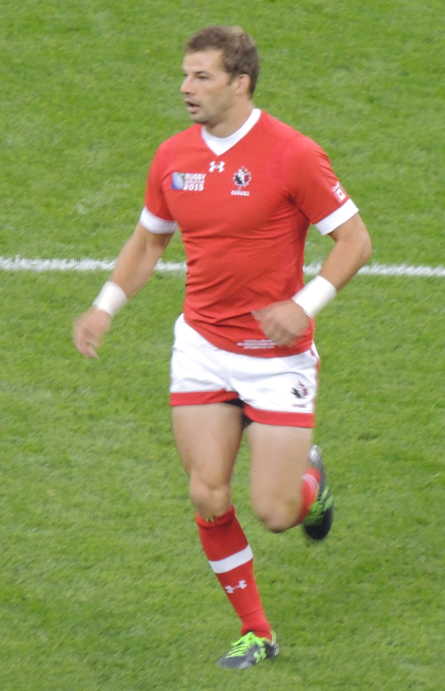 Canadian rugby union player Gordon McRorie playing in 2015 Rugby World Cup game Ireland vs Canada at Millennium Stadium in Cardiff.